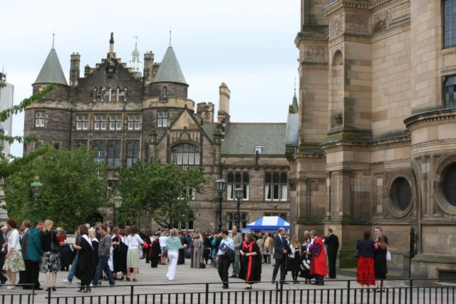 Square in front of the McEwan Hall on graduation day